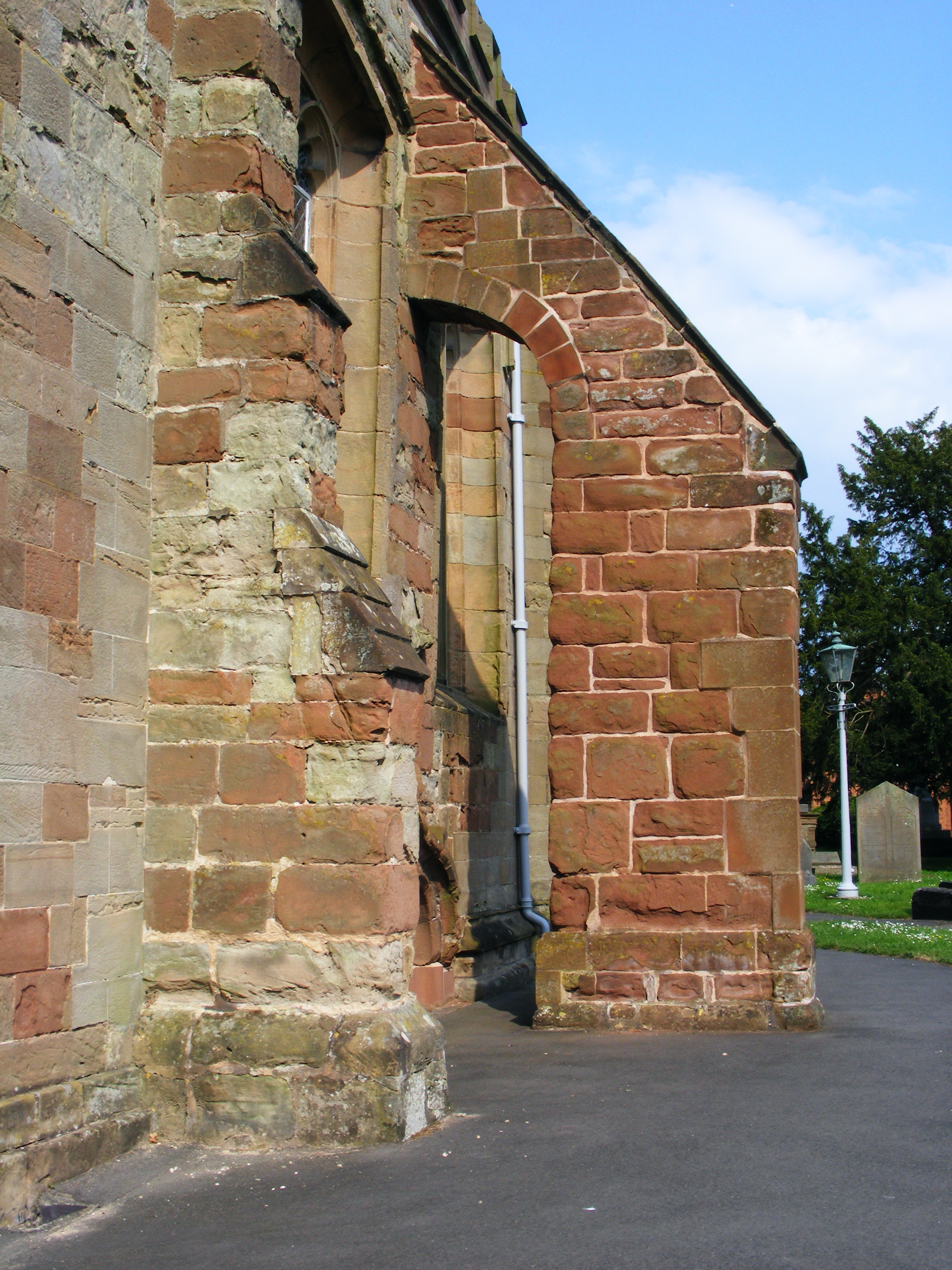 Flying buttress on St Cassian's parish church, Chaddesley Corbett, Worcestershire. It was added to support the south wall, which leans outwards.